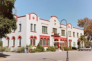 The former Louisville & Nashville depot in Bay St. Louis. Until 2005 Amtrak used the platforms and shelters nearby.